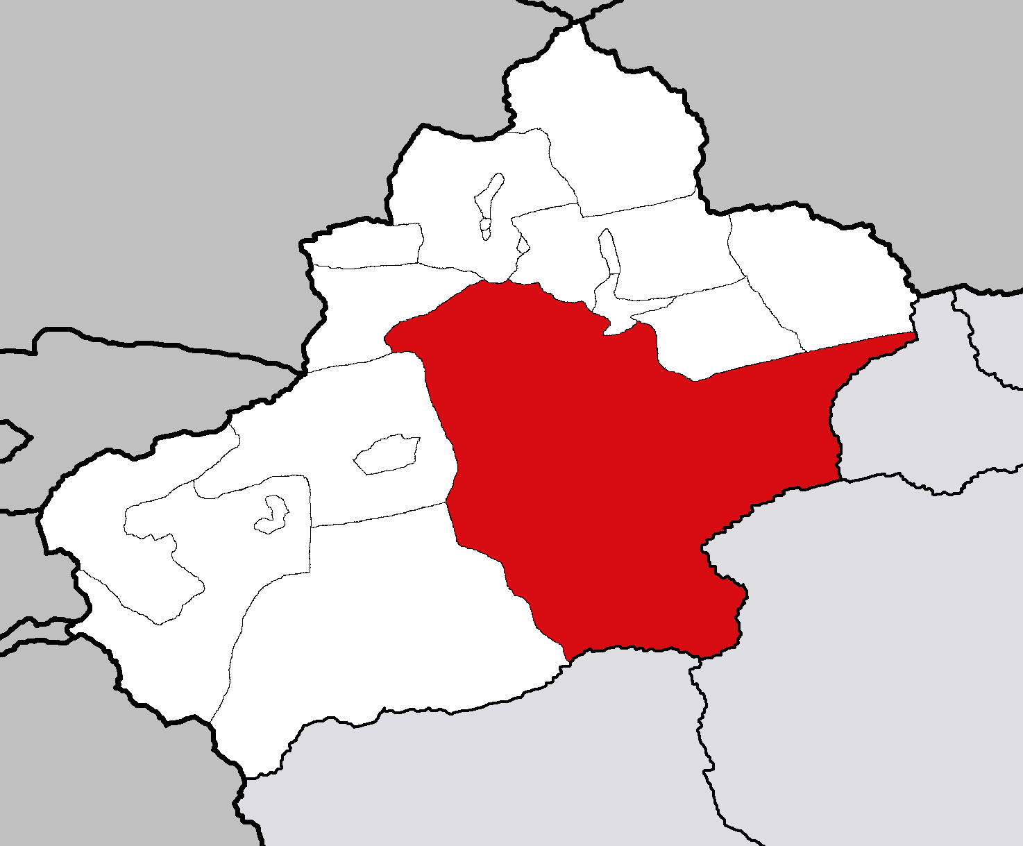 Maps of Xinjiang Uyghr Autonomous Region of China